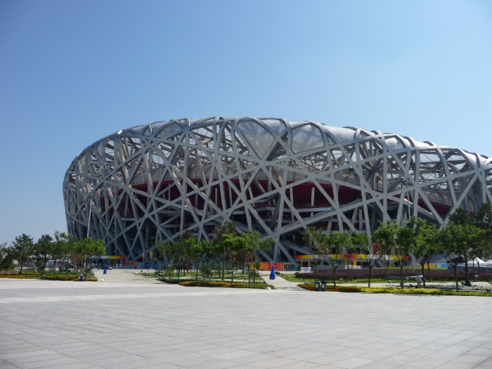 Blue sky over the bird's nest, Beijing, during the 2008 olympic games